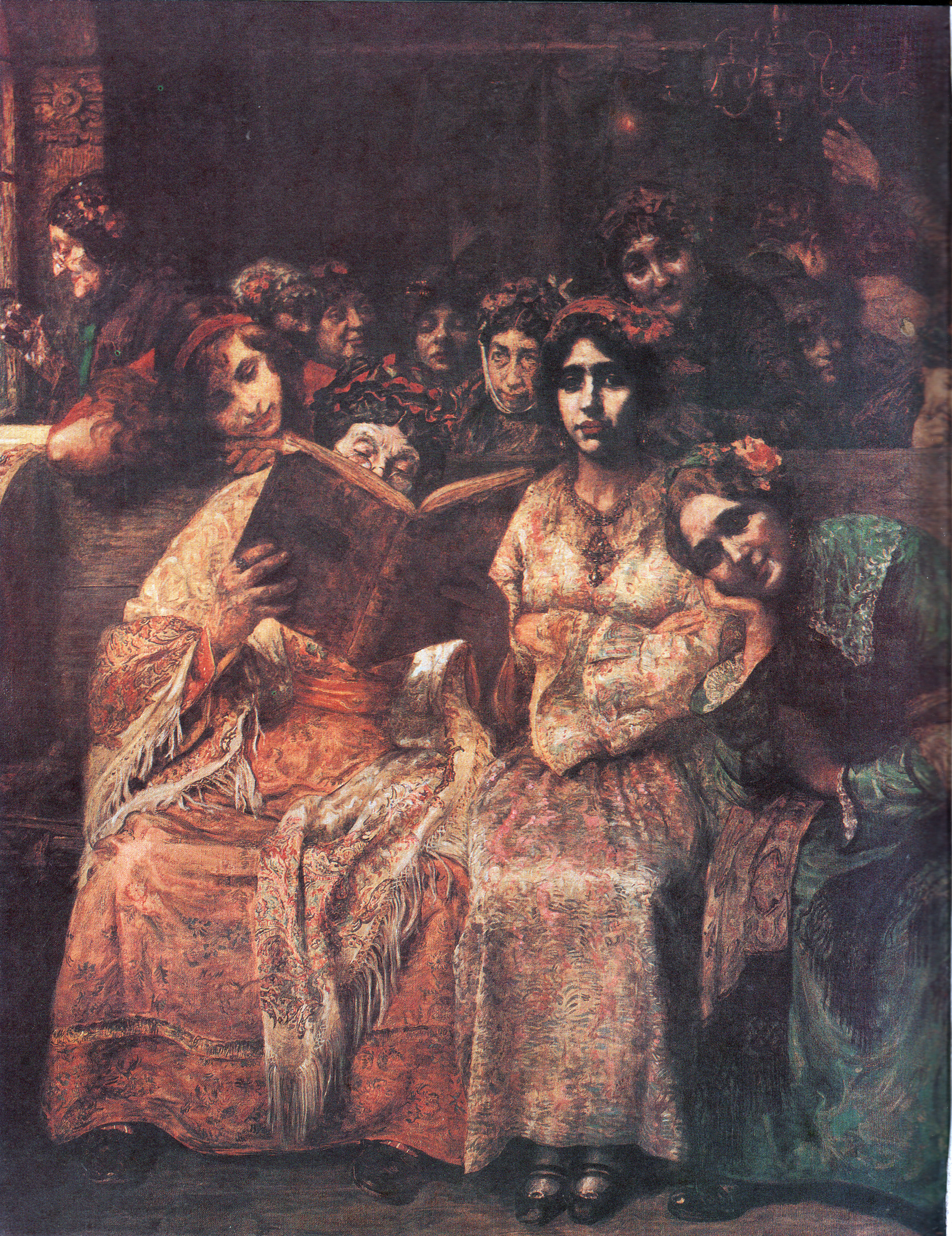 A depiction of women in the synagogue's women's gallery on the fast day of Tisha b'Av commemorating the destruction of the Temple in Jerusalem during the traditional reading of Lamentations (Megilat Eikhah). A firzogerin (precentress, prayer-leader) holds open a copy of the megilah in which she may be reading a translation in the women's vernacular language.